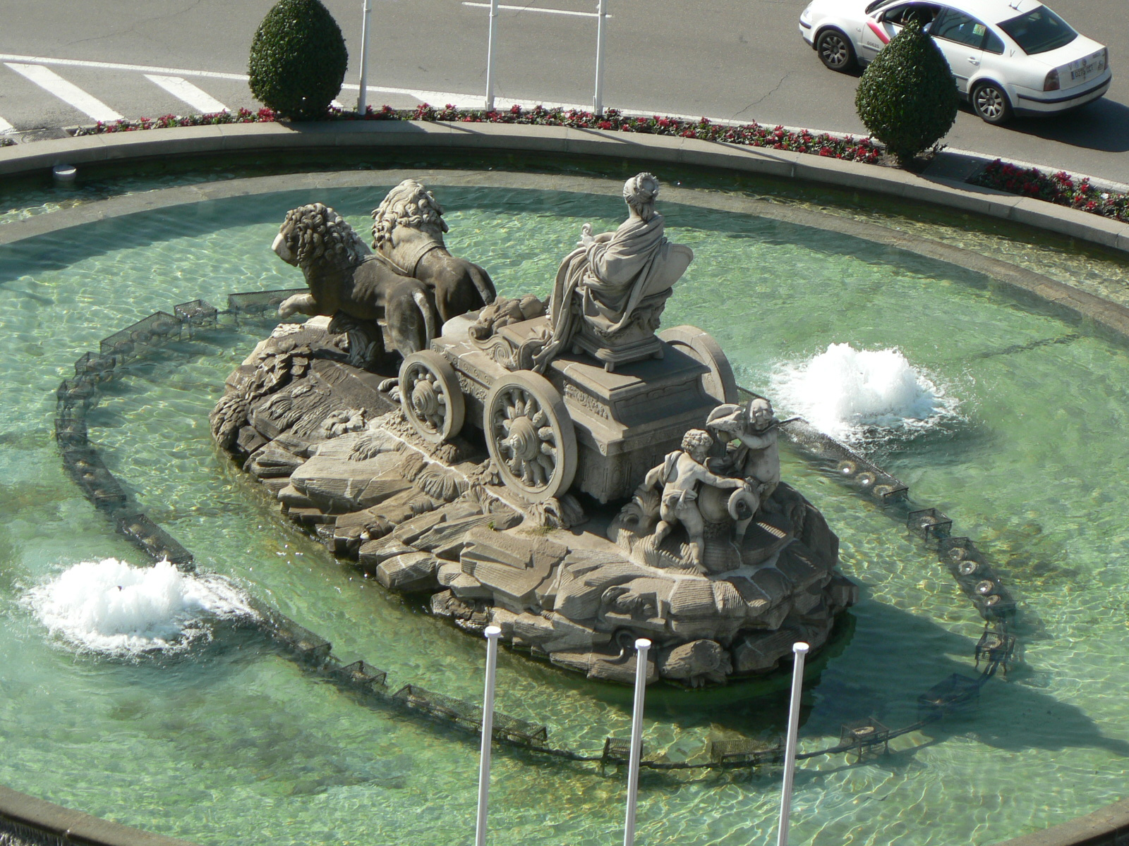 The Fountain of Cybele, Madrid